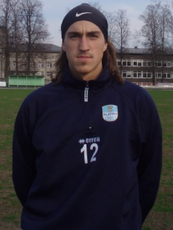 Igors Labuts, Latvian football goalkeeper.